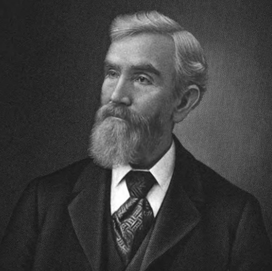 John Reilly (Pennsylvania Congressman)